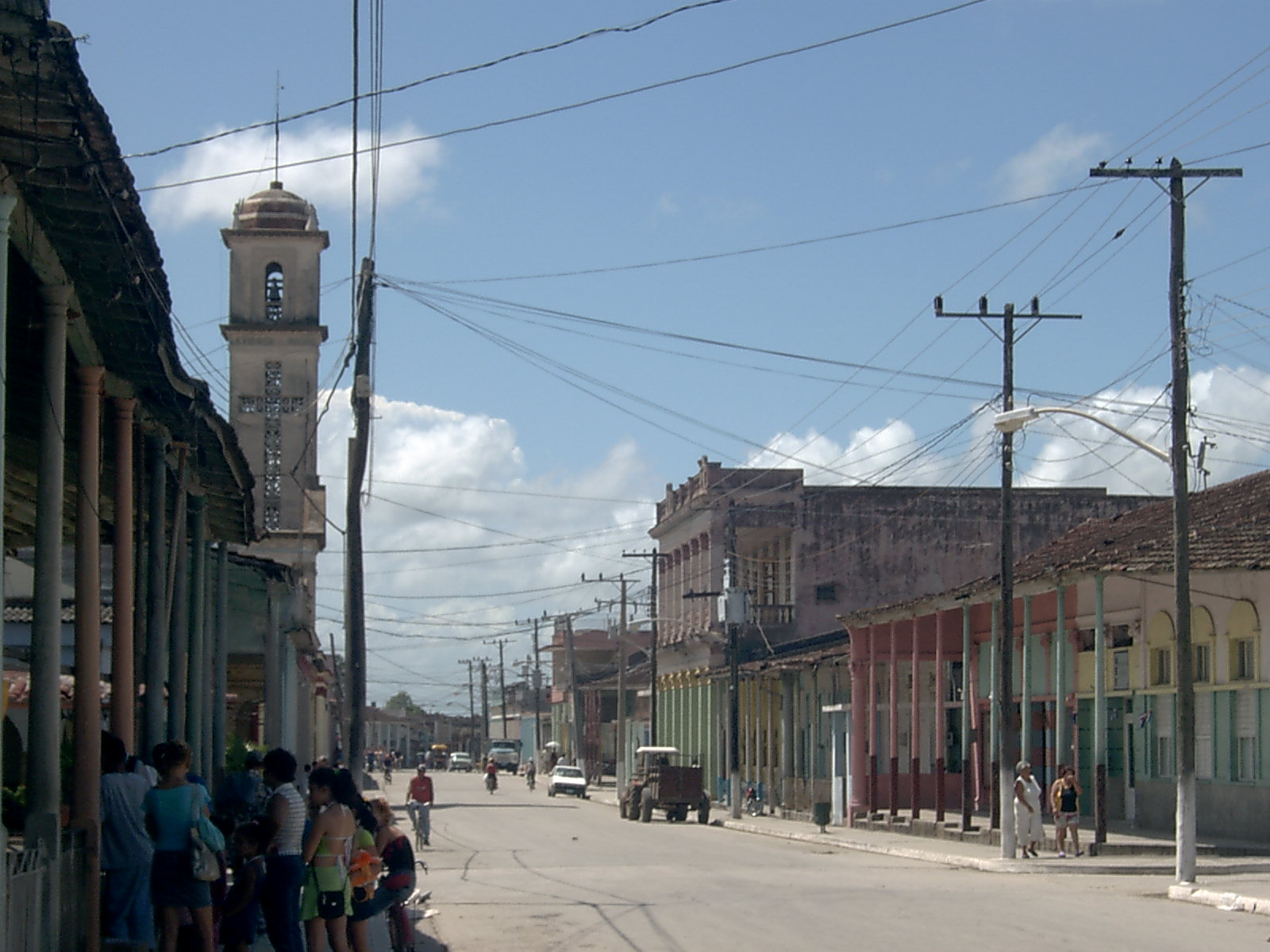 View of Cabaiguán, a town in Sancti Spíritus Province, in the centre of Cuba